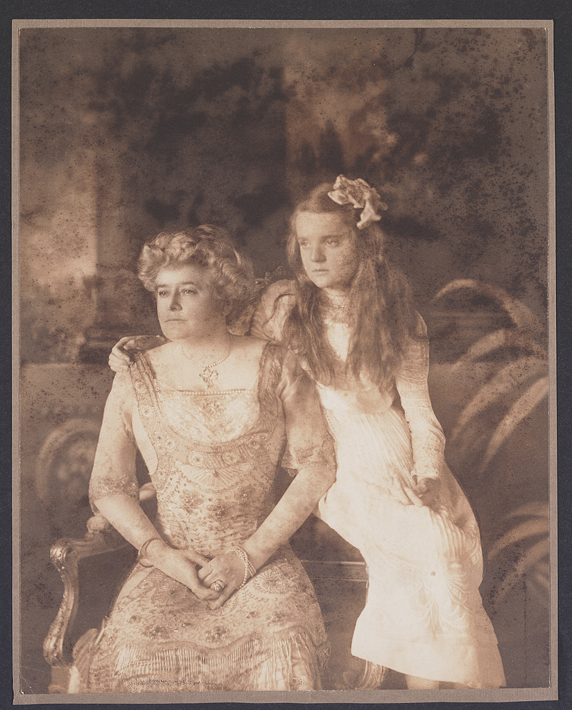 Title Esther & her motherSummary Photograph showing Esther Murphy Arthur as a girl with her mother, Mrs. Patrick Francis Murphy, née Anna Rehan.Created / Published [between 1910 and 1915?]Subject Headings - Arthur, Esther Murphy - Murphy, Anna Rehan Format Headings Group portraits--1910-1920. Photographic prints--1910-1920. Portrait photographs--1910-1920. Notes - Title from item. - Forms part of: Arthur family papers (Library of Congress). - Accession box no. PR 13 CN 1976:027 C13 album 6 Medium 1 photographic print. Call Number/Physical Location Unprocessed in PR 13 CN 1976:027, album 6, [l. 25] [P&P]Repository Library of Congress Prints and Photographs Division Washington, D.C. 20540 USA Id ds 00012 //hdl.loc.gov/loc.pnp/ds.00012 Library of Congress Control Number 2010650553Reproduction Number LC-DIG-ds-00012 (digital file from original item)Rights Advisory Rights status not evaluated. For general information see "Copyright and Other Restrictions...," Format image Description 1 photographic print. | Photograph showing Esther Murphy Arthur as a girl with her mother, Mrs. Patrick Francis Murphy, née Anna Rehan. LCCN Permalink Additional Metadata Formats MARCXML Record MODS Record Dublin Core Record